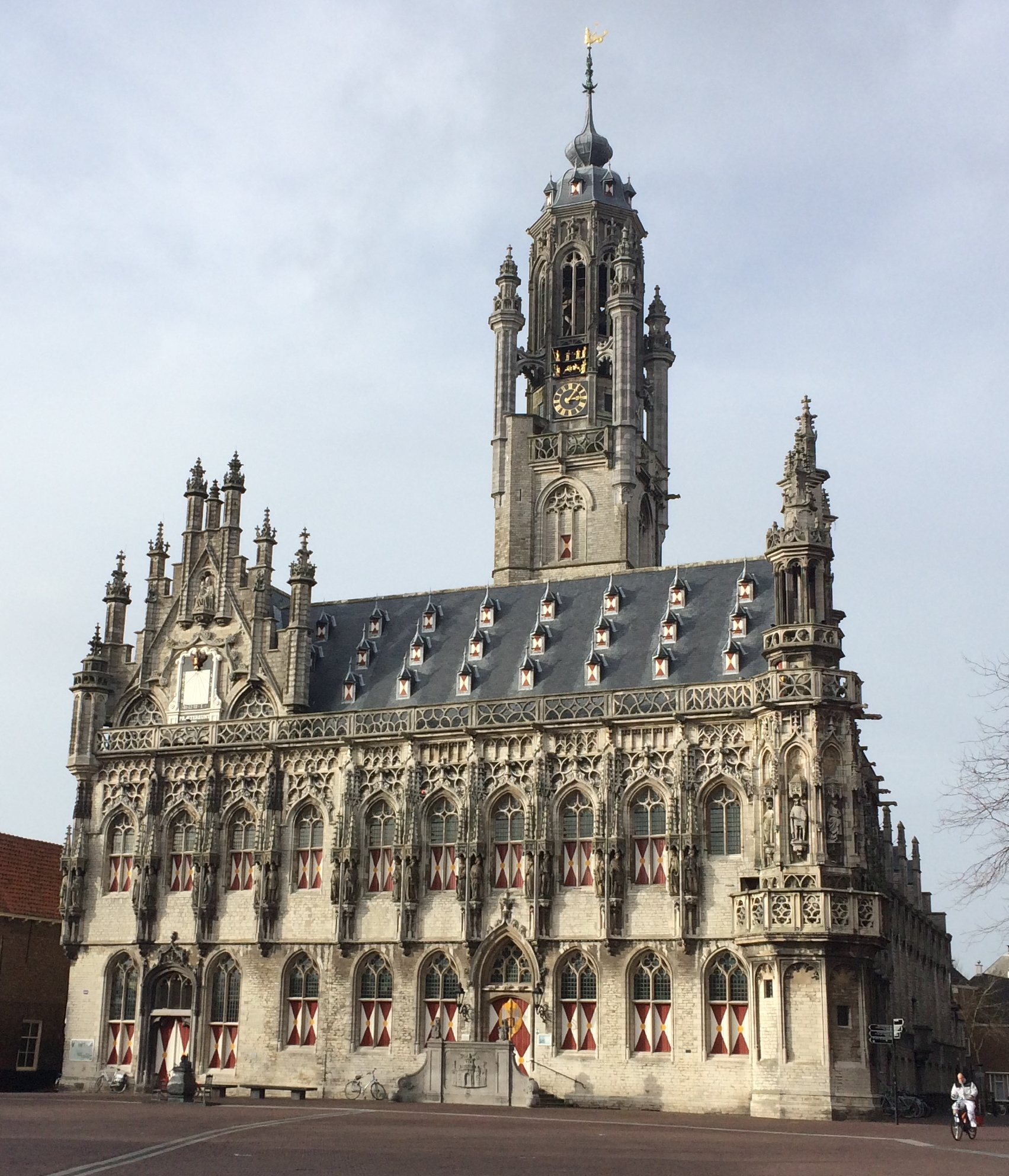 Townhall of Middelburg, The Netherlands